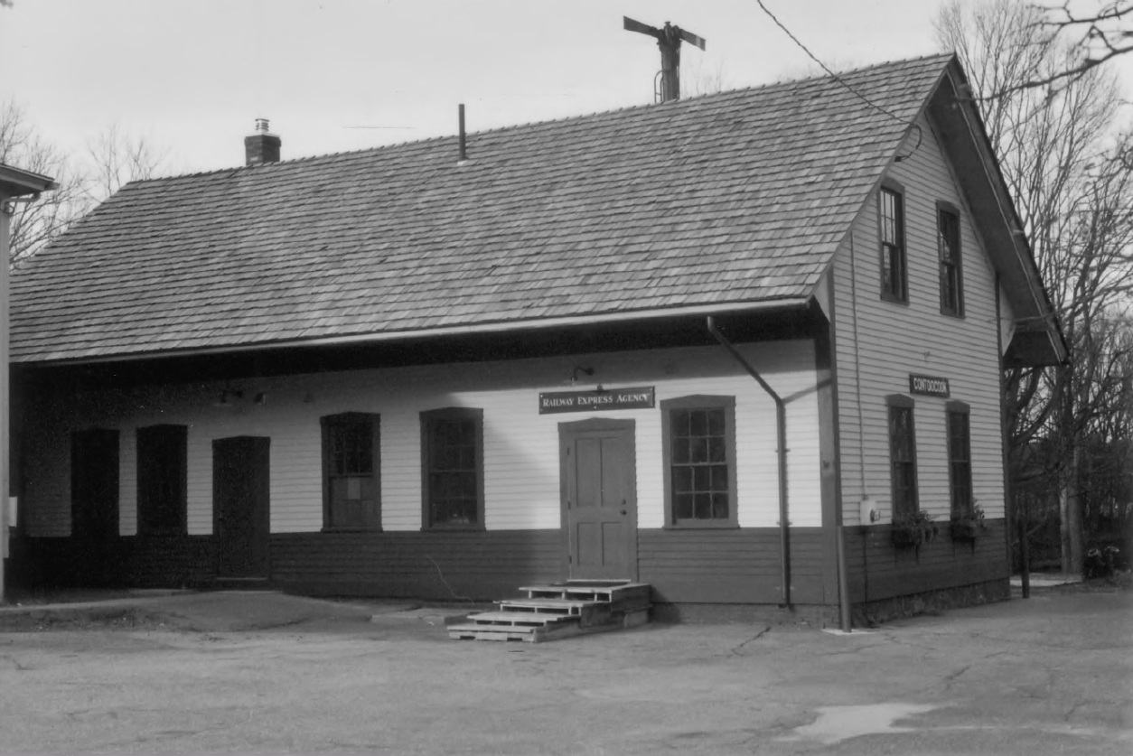 Contoocook Railroad Depot as it stood following its initial major renovation completed in 2005. Other information Previous president of the Contoocook Riverway Association. Original picture given to me when I assumed position in 2012.